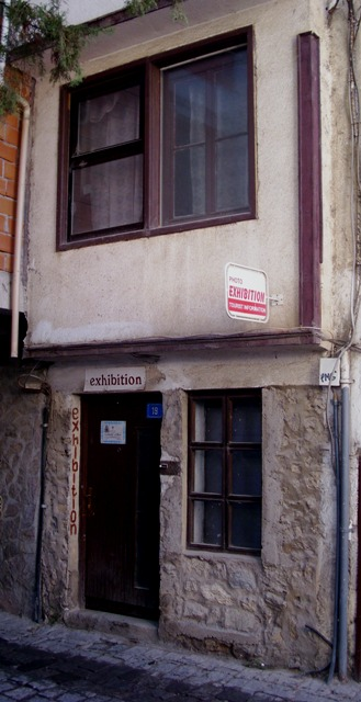 This was the house in Kosta Abrash Street in Ohrid, which was owned by Atanas Talevski and where he lived the last years of his life. Here was his photo gallery.